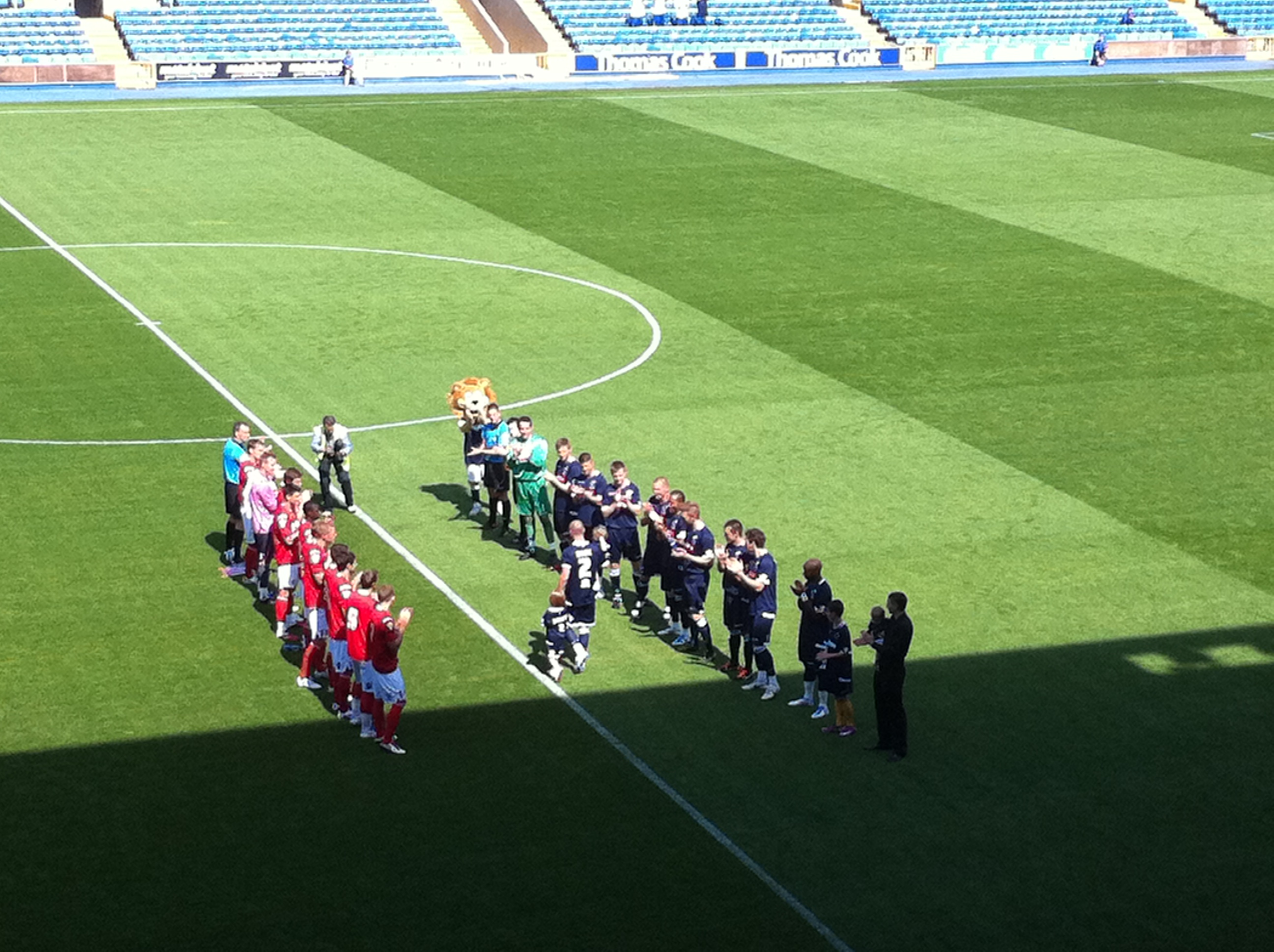 Alan Dunne's testimonial game. Millwall vs Charlton Athletic at The Den, which ended 4-3 to Millwall.